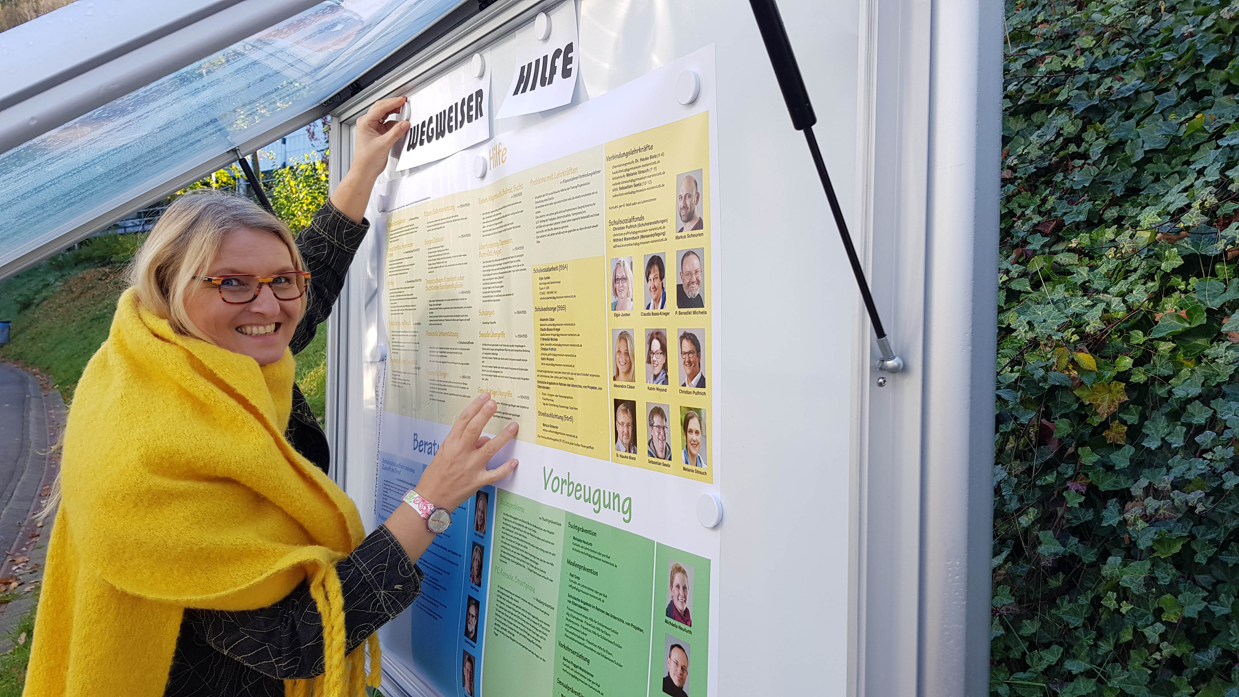 Wegweiser Hilfe - Schulseelsorgerin Alexandra Cäsar bestückt den Schaukasten mit der analogen Form des Wegweisers Hilfe